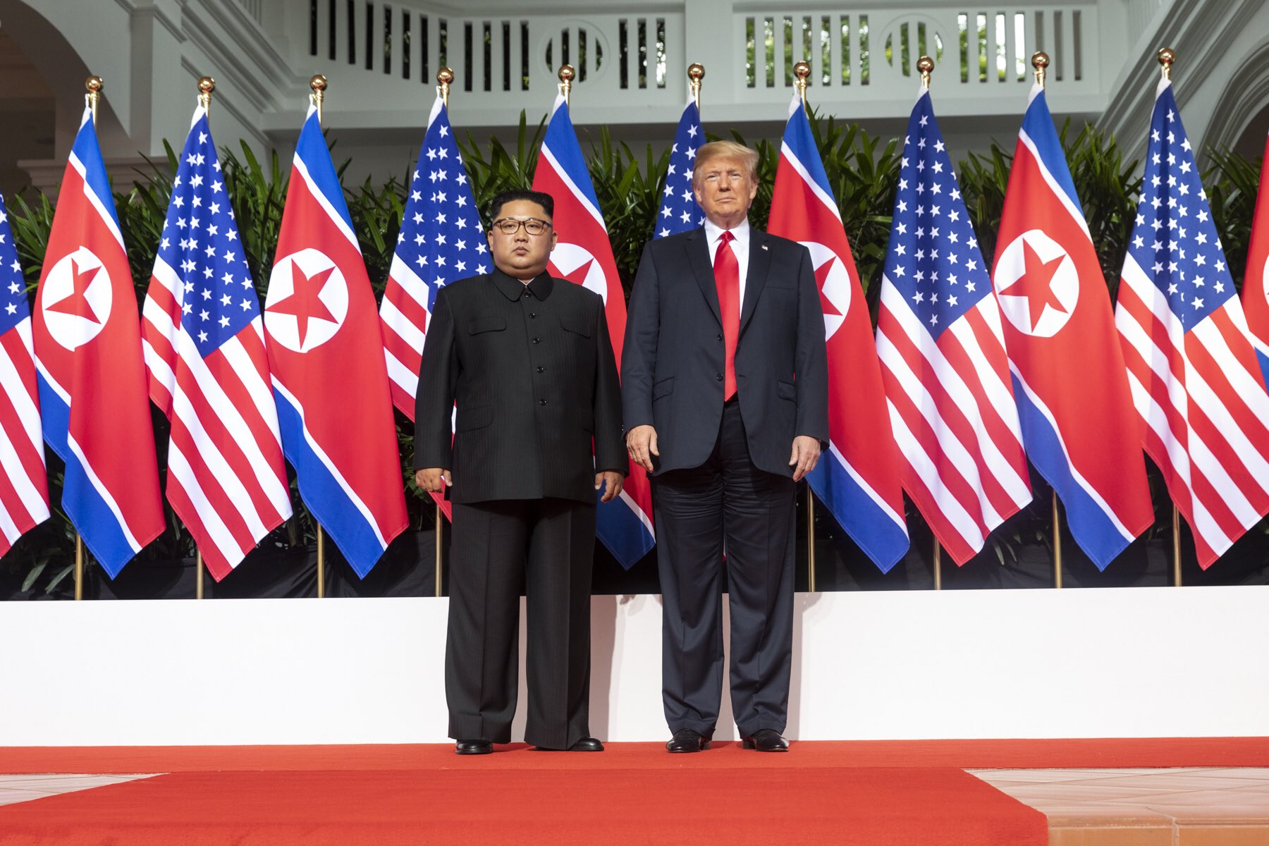 Trump and Kim standing next to each other on the red carpet during the Singapore summit